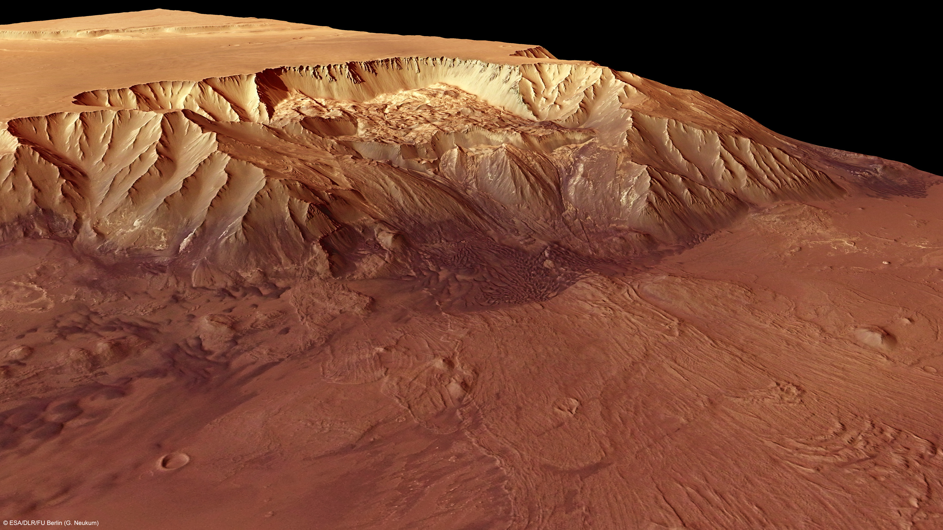 Computer-generated perspective view of Melas Chasma on Mars based on data from Mars Express.